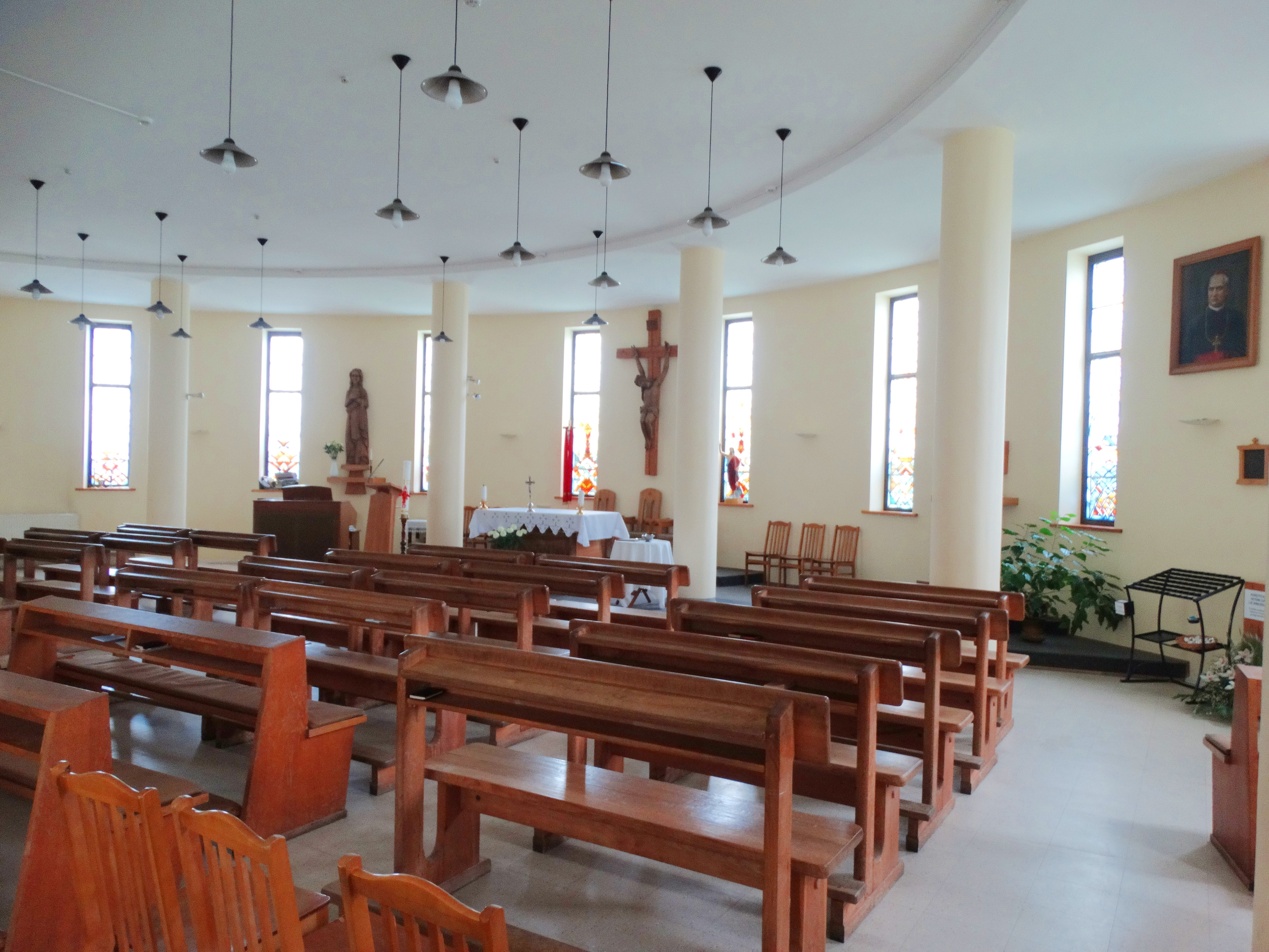 Blessed Matulaitis House chapel in Kaunas, Lithuania